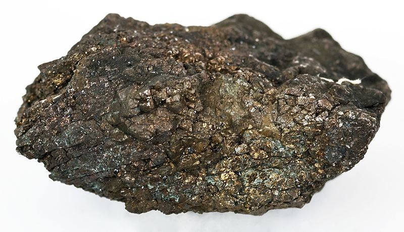 Pentlandite, Chalcopyrite, Pyrrhotite Locality: Sudbury, Sudbury District, Ontario, Canada (Locality at ) Size: 7.2 x 5.9 x 3.1 cm. This is a rich ore sample, containing a mixture of several sulfide minerals: pentlandite, chalcopyrite, and pyrrhotite. Self-collected by curator Sam Gordon, in 1932. Ex. Philadelphia Academy of Sciences Collection.